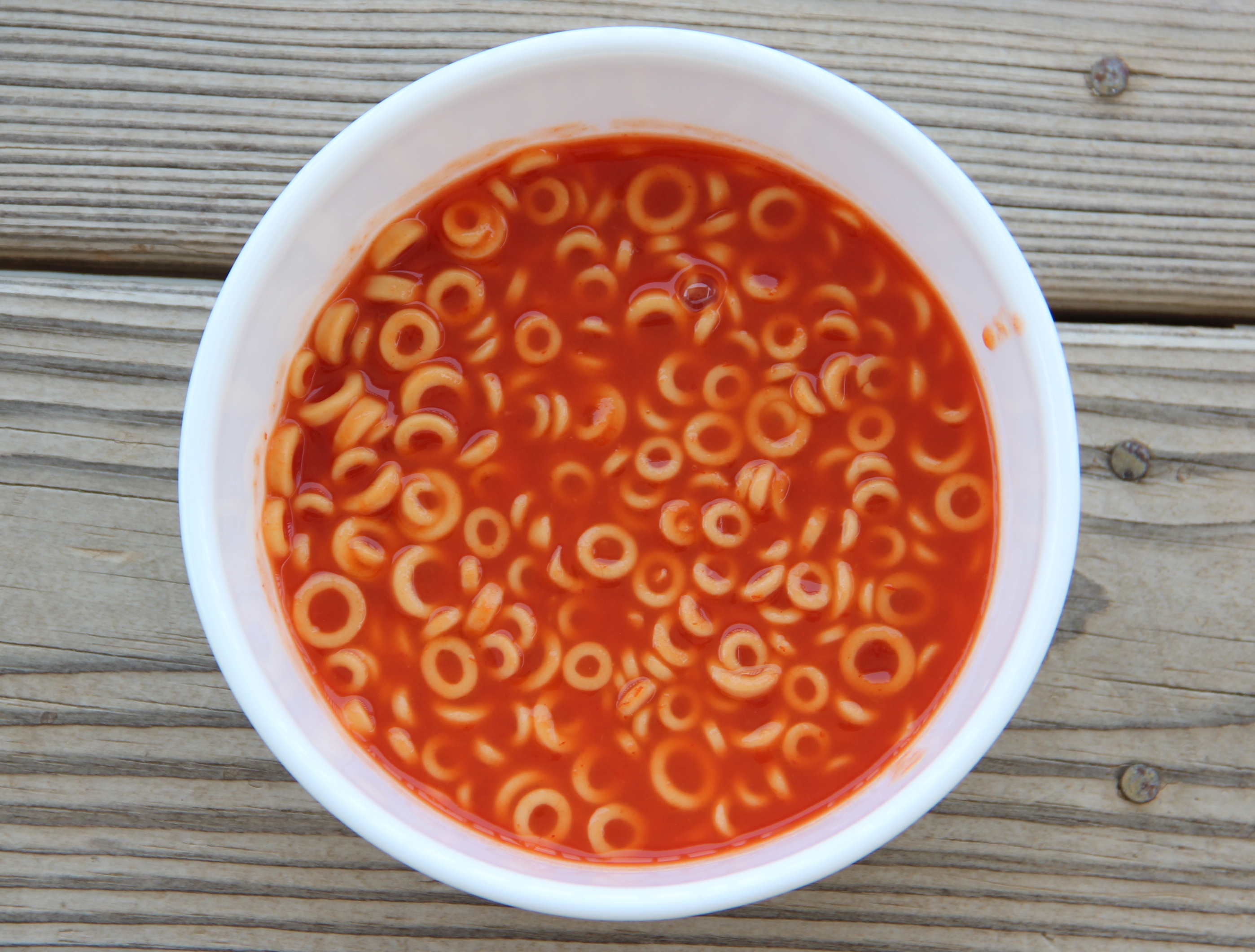 A bowl of SpaghettiOs